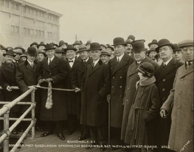 Edward J. Riegelmann, Brooklyn Borough President, opening the boardwalk between West 5th and West 17th Streets in Coney Island, Brooklyn, New York City on 24 December 1922. Riegelmann is the man with his hands holding the end of the rope in left of photo. This is a scan from the NYC Municipal Archives, Borough President Brooklyn collection. The original is an 8 in. x 10 in. gelatin-silver print.